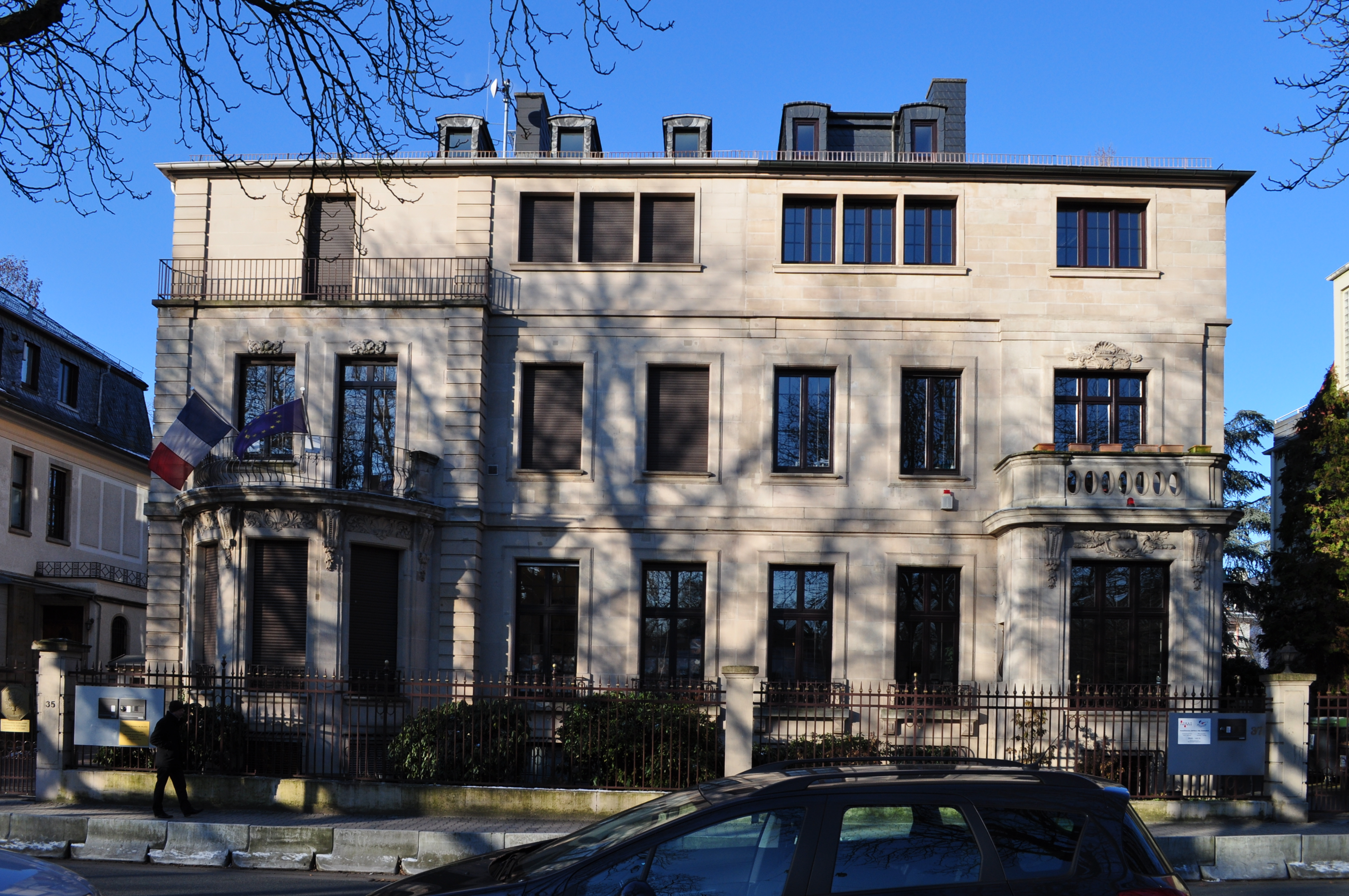 French Consulate General in Frankfurt on Main